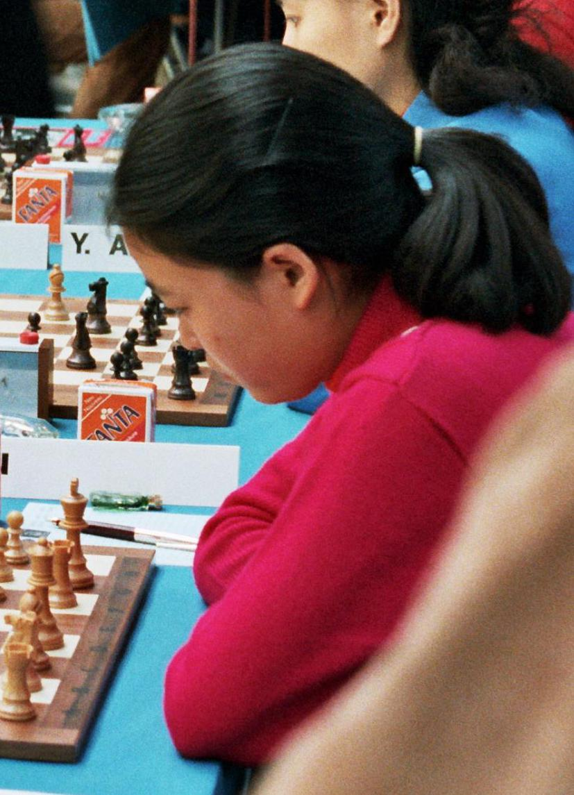 Germany (Barbara Hund, Gisela Fischdick, Petra Feustel) - China, Chess Olympiad 1982 in Lucerne, Photographer Gerhard Hund.